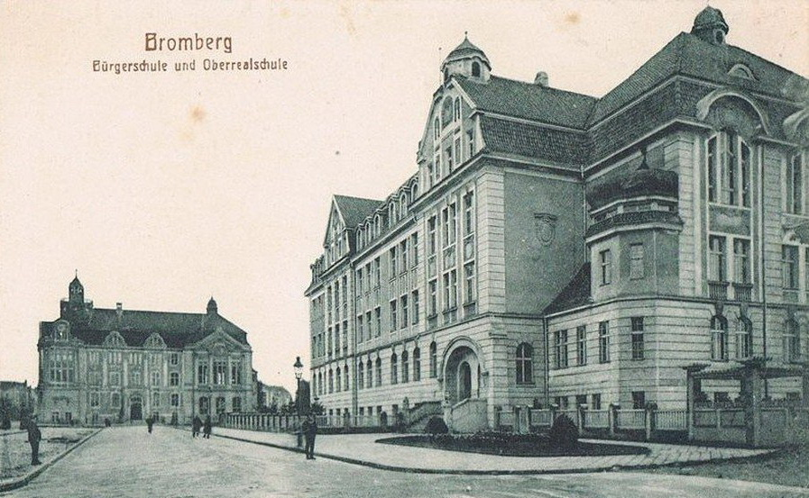 View 1915